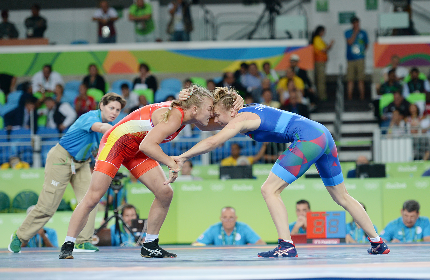 Wrestling at the 2016 Summer Olympics, Ratkevich vs Herhel